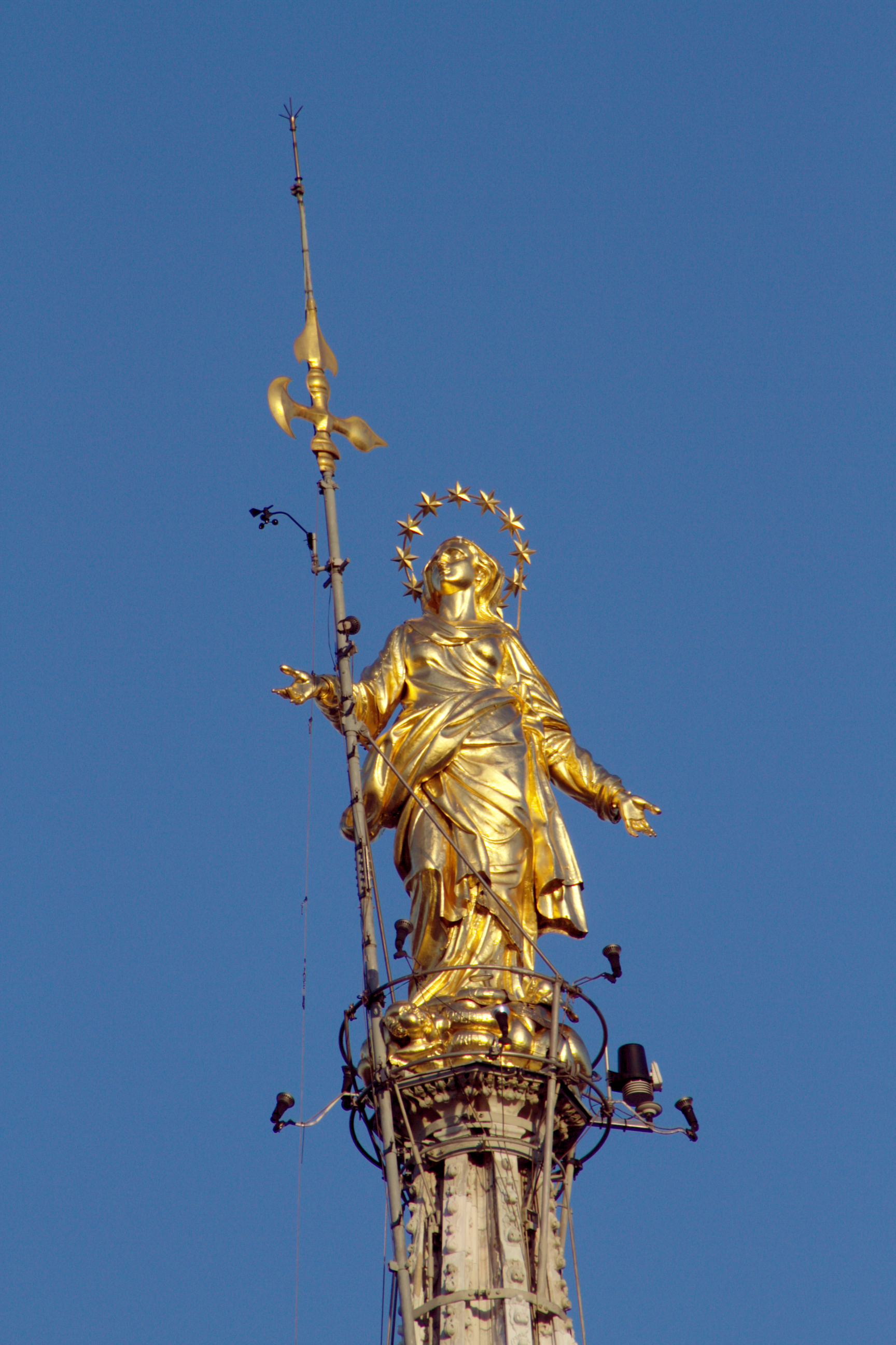 Madonnina - Duomo